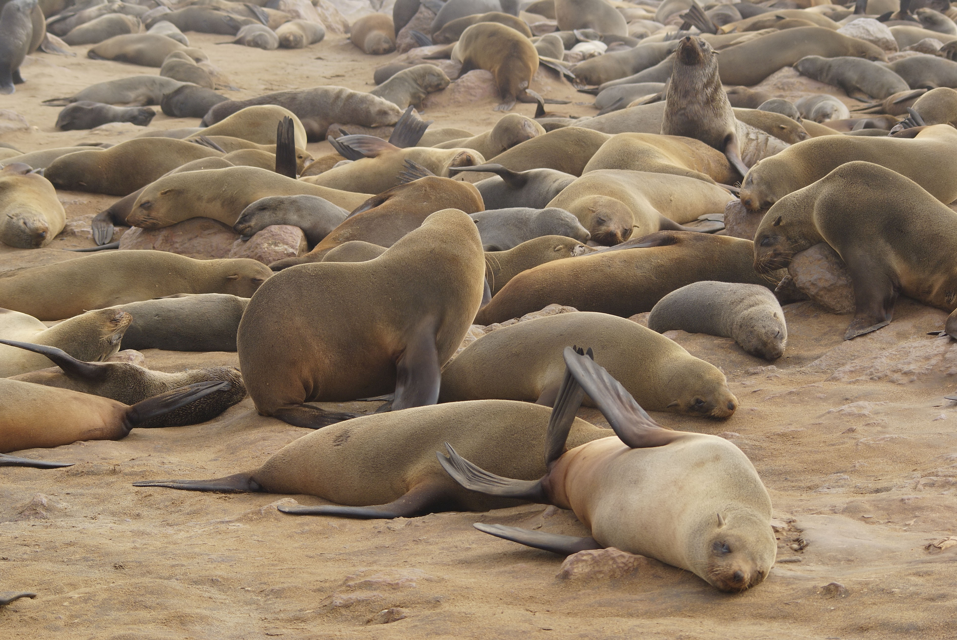 A colony of Cape Fur Seals at Cape Cross on the Skeleton Coast, Namibia